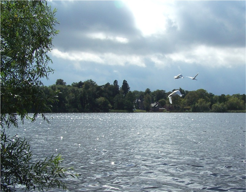 Groby Pool taken by kev747